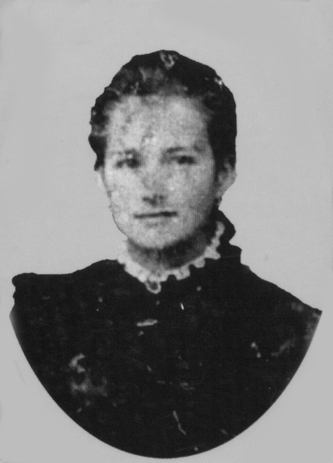 Picture of Brazilian Jacobina Mentz Maurer (1842-1874), the leader of the Muckers